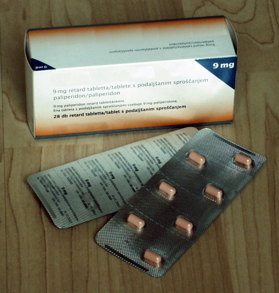 Paliperidon (according to hungarian medicine advertisement law)